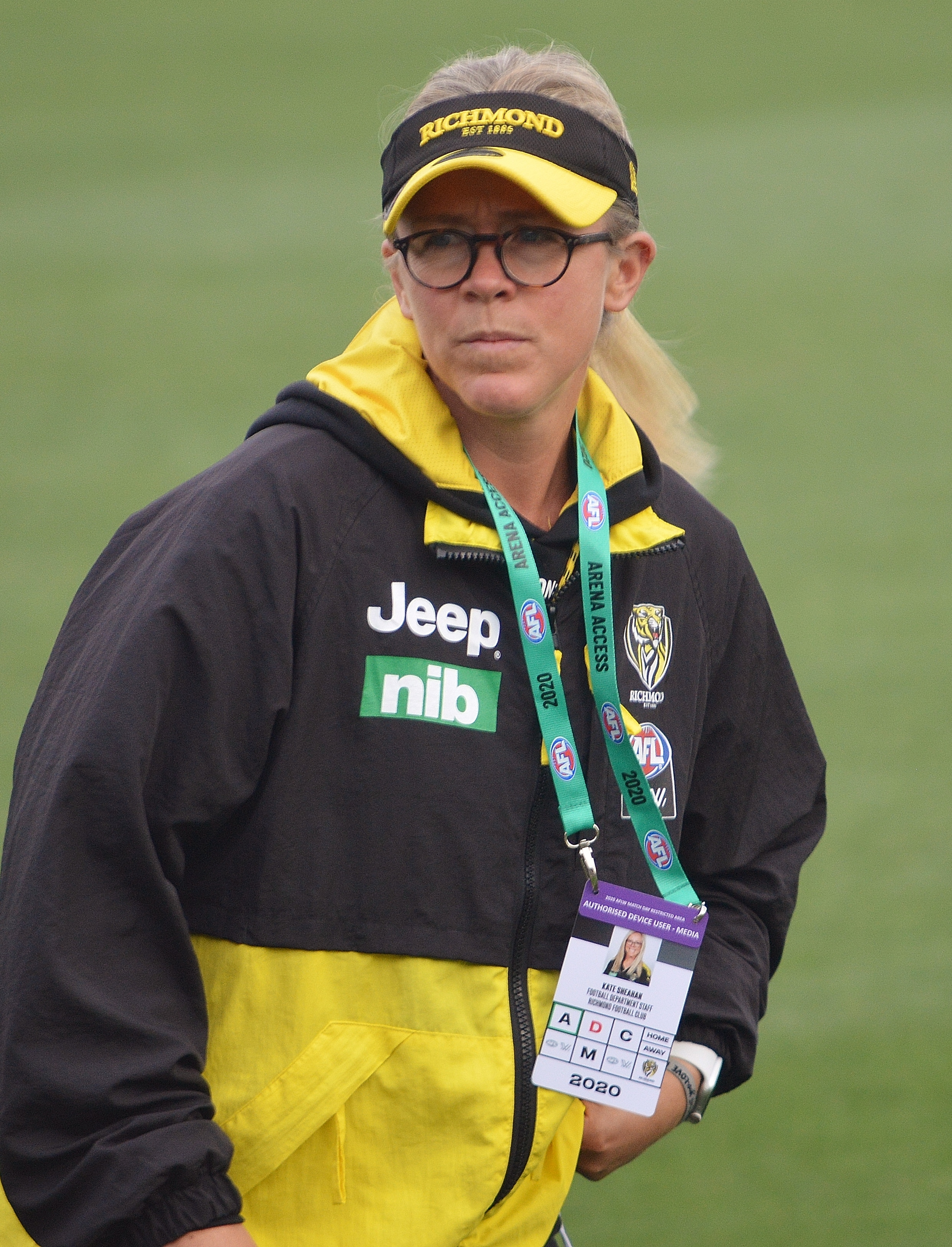 Kate Sheahan during the round 1, 2020 AFLW match between Richmond and Carlton